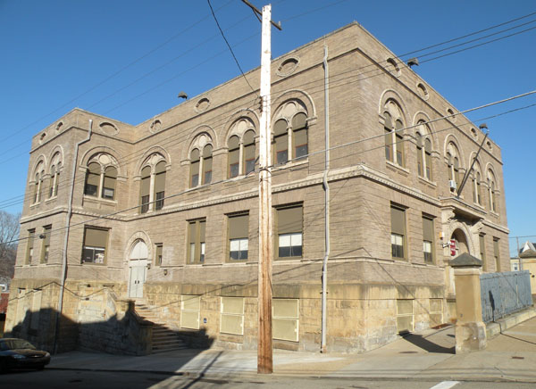 Picture of McCleary Elementary School (also known as McCleary Traditional Academy, and more recently as McCleary Early Childhood Center) located at 5251 Holmes Street (at the corner of Holmes Street and McCandless Avenue) in the Upper Lawrenceville neighborhood of Pittsburgh, Pennsylvania, on December 12, 2009. The school was built in 1900, and is listed on the National Register of Historic Places. Architect: Ulysses J. Lincoln Peoples. Architectural style: Renaissance Revival.